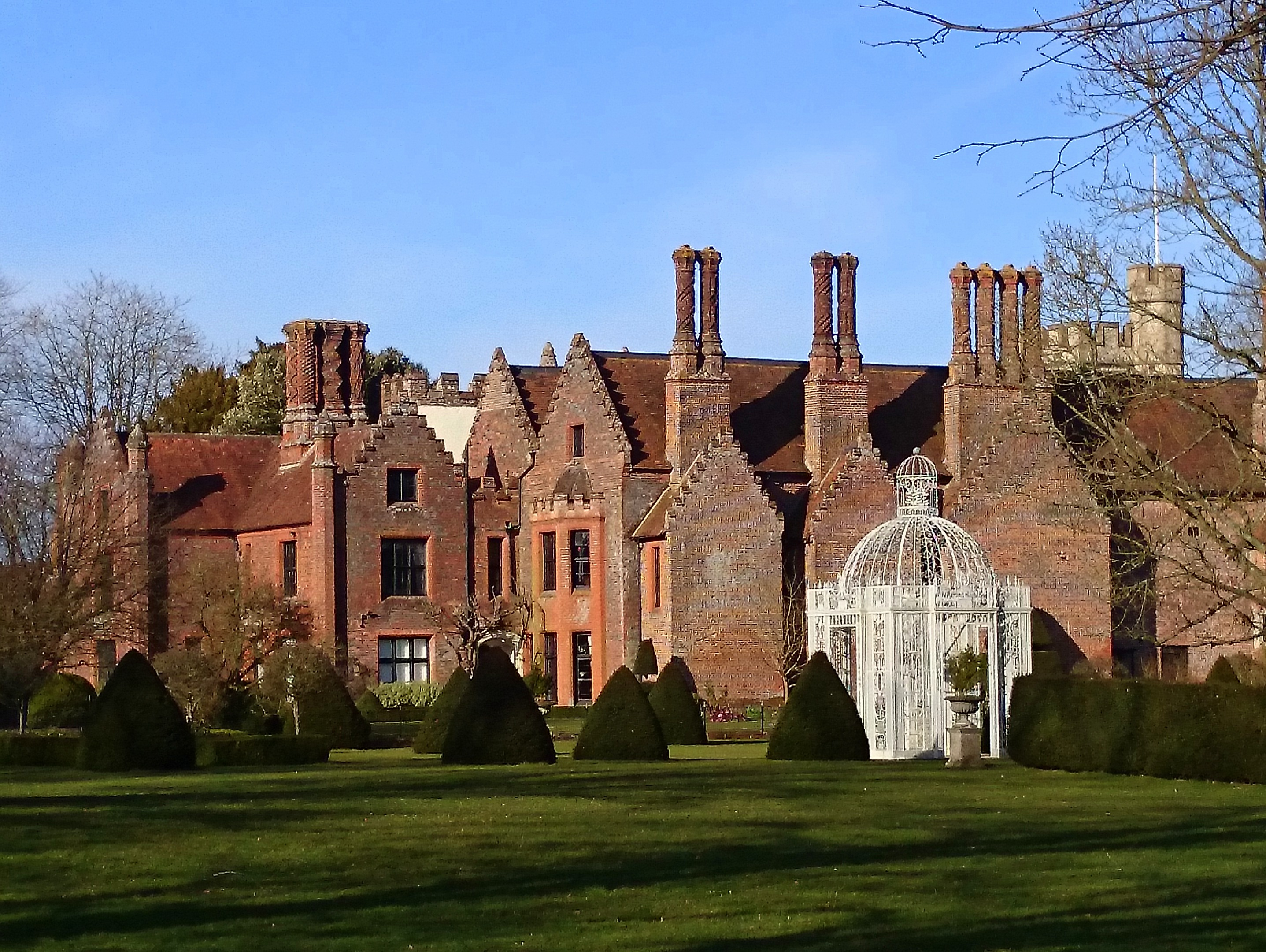 Chenies Manor House. The current house was built around 1460 by Sir John Cheyne. It is noted for its 23 brick chimneys. Architectural historian Nikolaus Pevsner described the manor house as "beautifully mellow under the trees by the church, and archaeologically a fascinating puzzle".